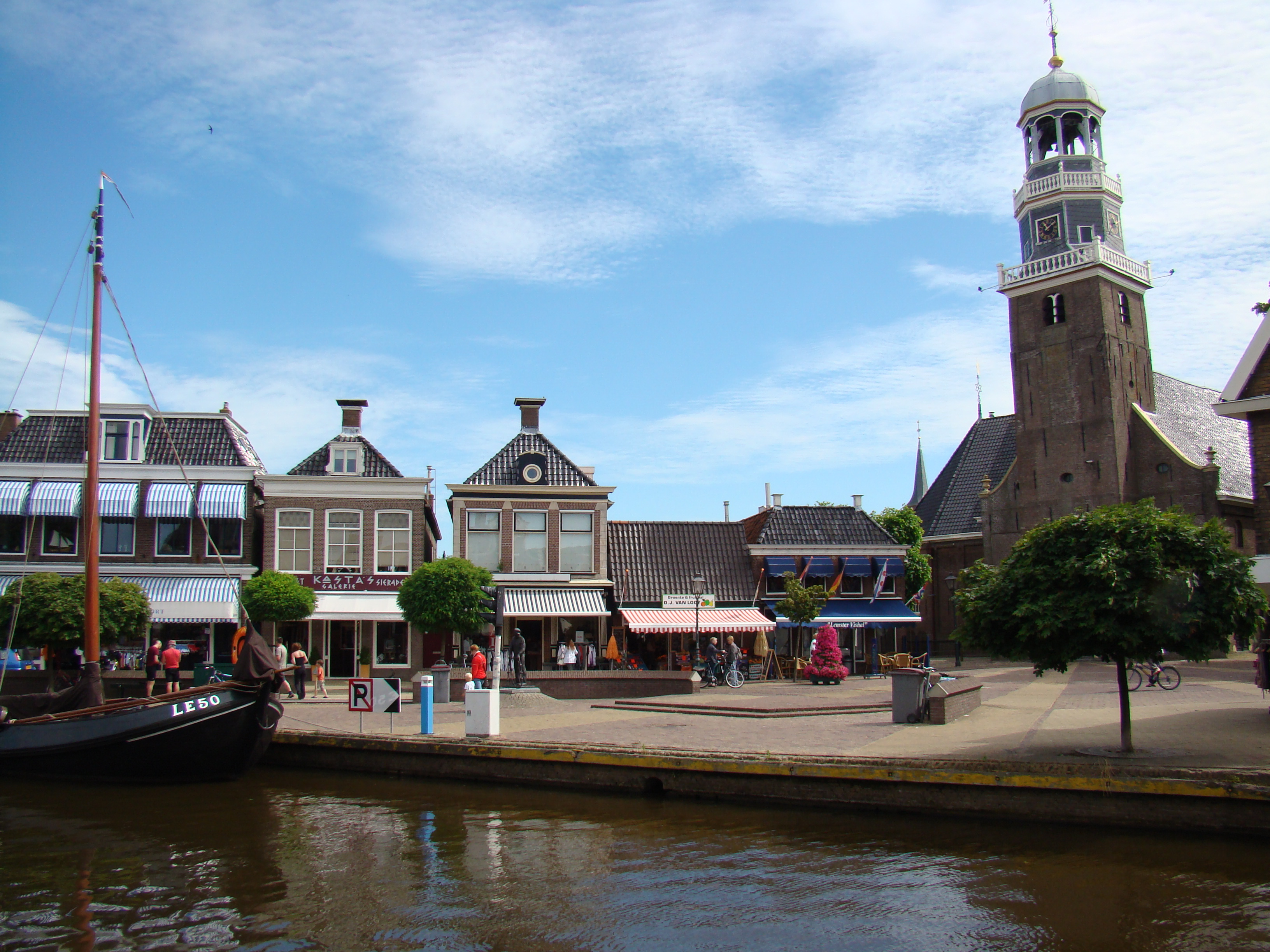 Impressions of Lemmer, Netherlands